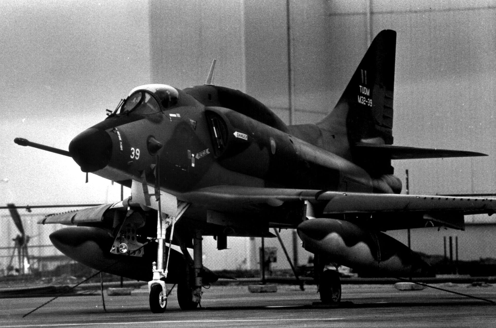 A McDonnell Douglas A-4PTM Skyhawk in the United States in 1986. The A-4PTM were 40 refurbished A-4Cs and A-4Ls for Malaysia and designated "PTM" for "Peculiar to Malaysia". The aircraft were modernised at the Grumman facility in St. Augustine, Florida (USA).